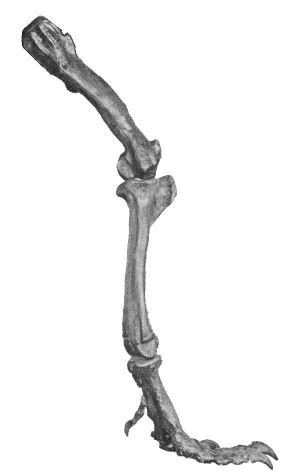 Main bones of Tyrannosaurus Rex leg and foot